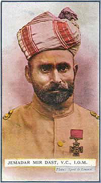 A Gallaher's cigarette card with a colourised photograph of World War I Victoria Cross and Indian Order of Merit recipient Jemadar Mir Dast (3 December 1874 – 24 June 1950) of the 55th Coke's Rifles (Frontier Force), Indian Army.